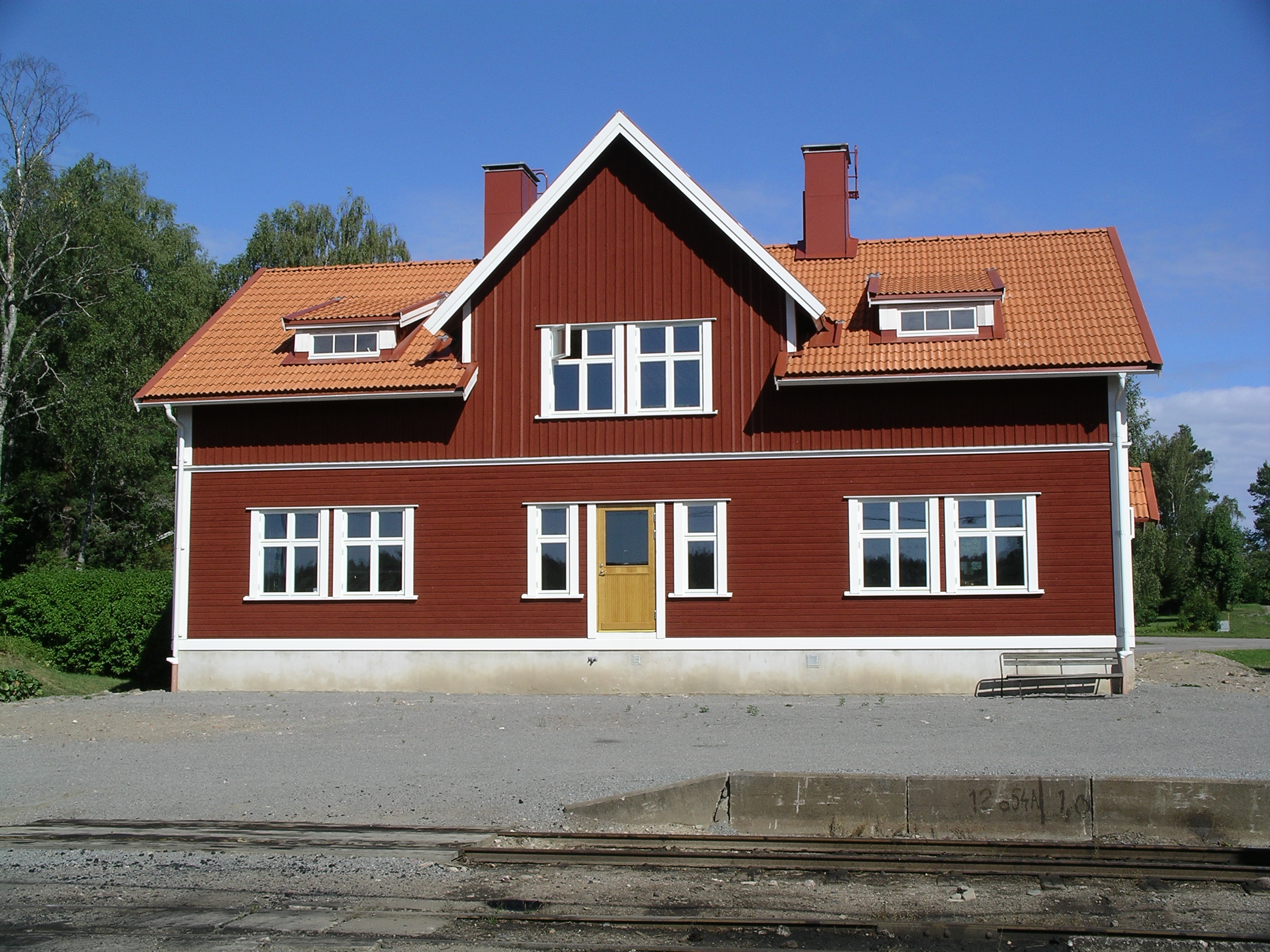 Railway station Faringe at Upsala-Lenna Railway in Sweden